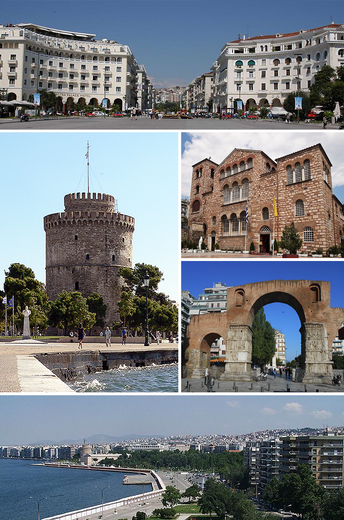 Thessalonica